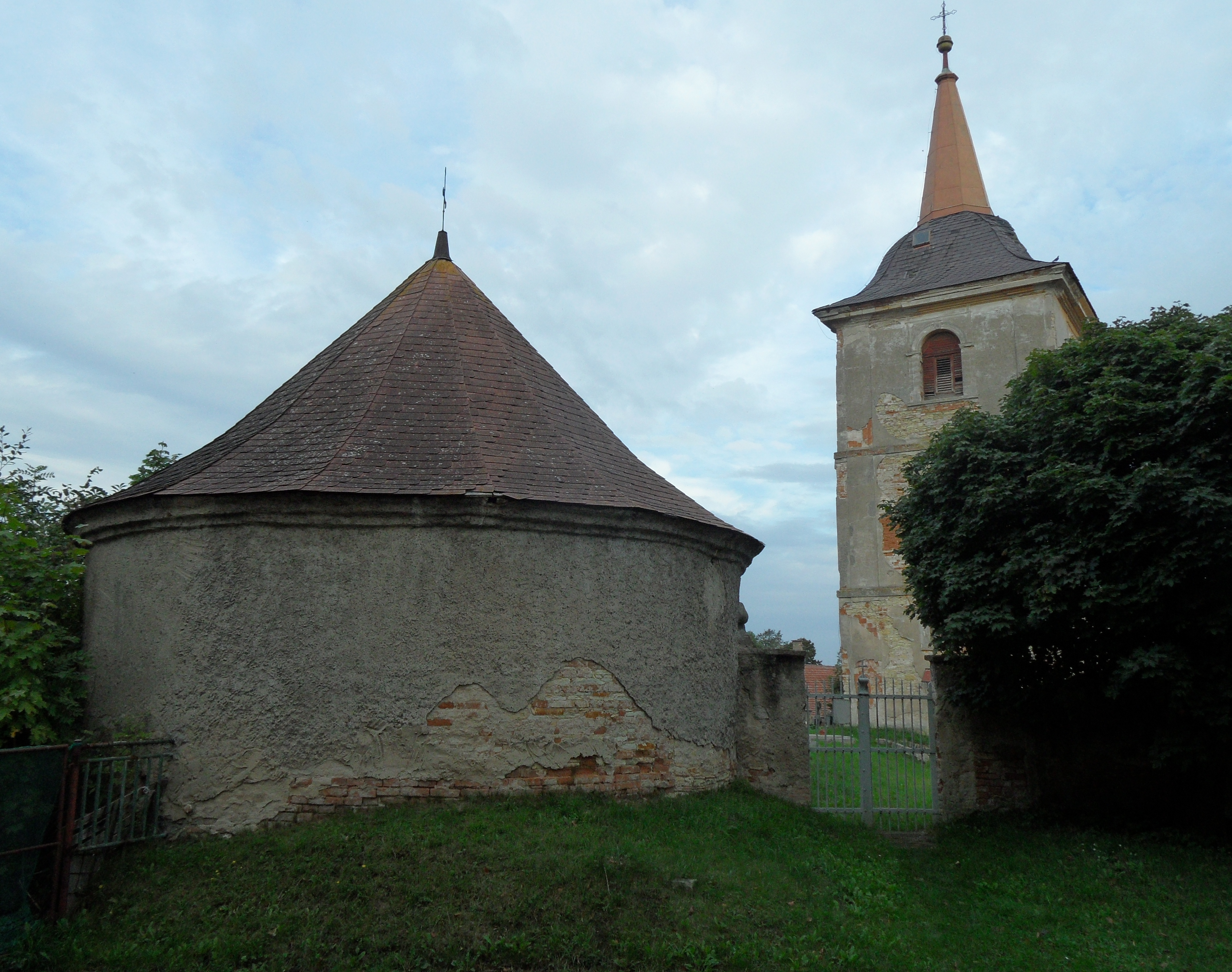 Bošín (Křinec) I. Church of the Assumption of the Virgin Mary, Nymburk District, the Czech Republic.